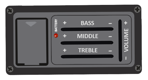 Acoustic electric guitar